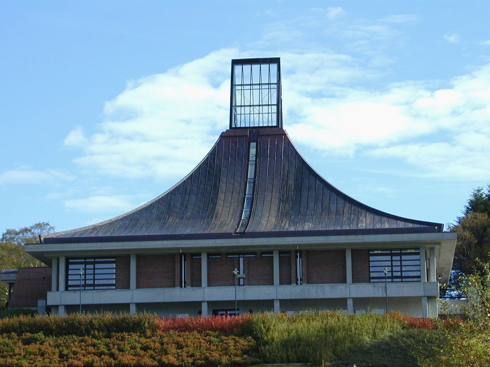 Ellingsøy kirke sett vestfra. Foto: Max Ingar Mørk. Fra Riksantikvarens Kulturminnebilder.